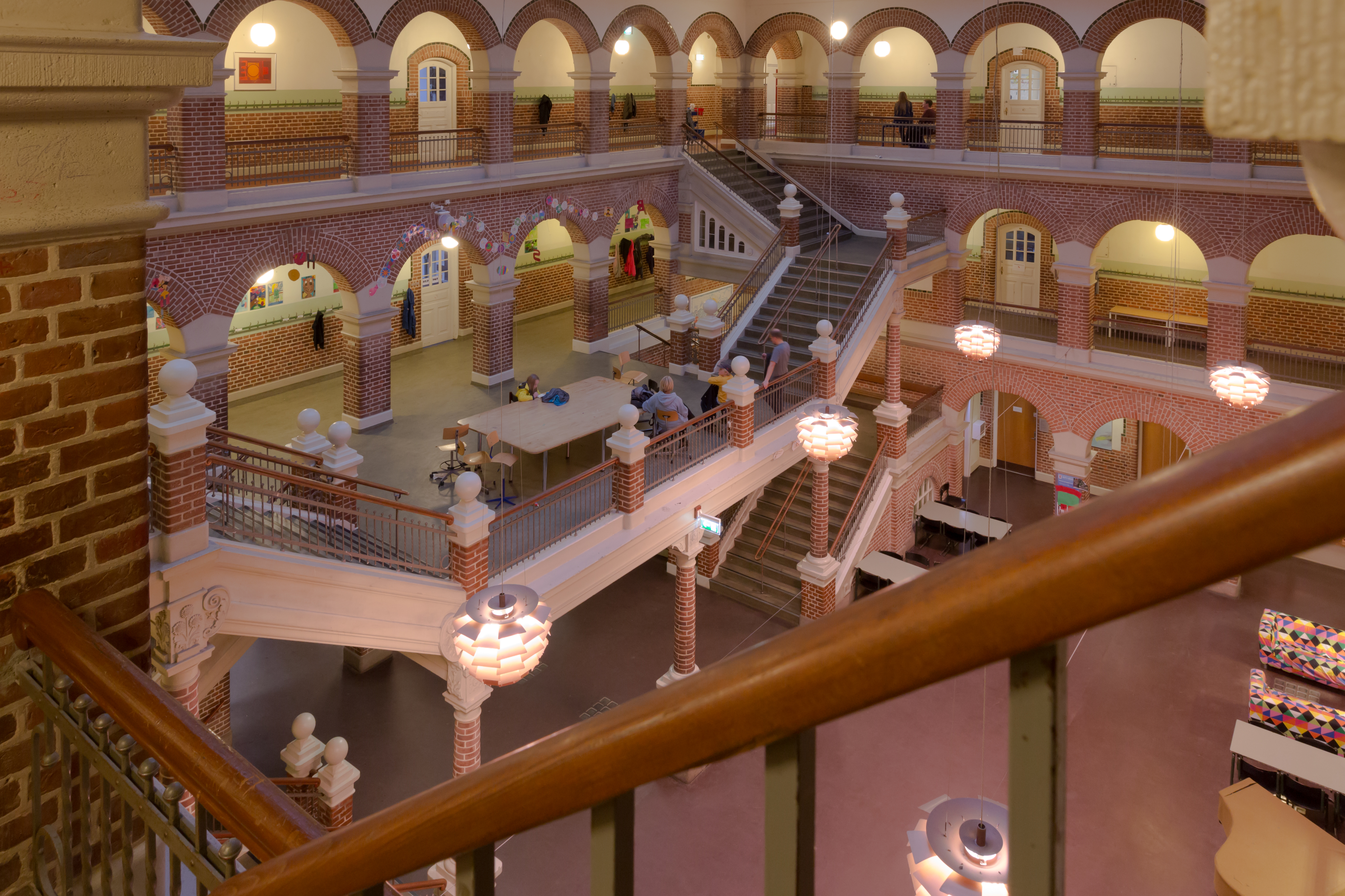 Læssøesgades Skole a look down the hall